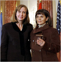 2007 International Women of Courage Award